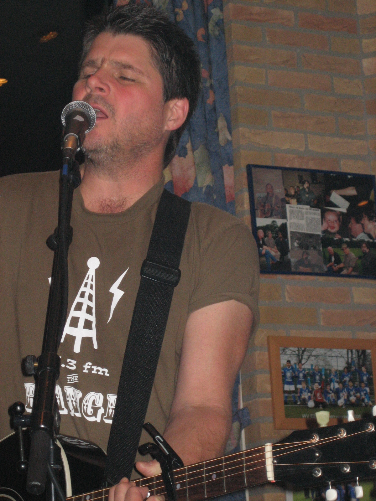 Chris Knight at WVHEDW in Amsterdam, the Netherlands.